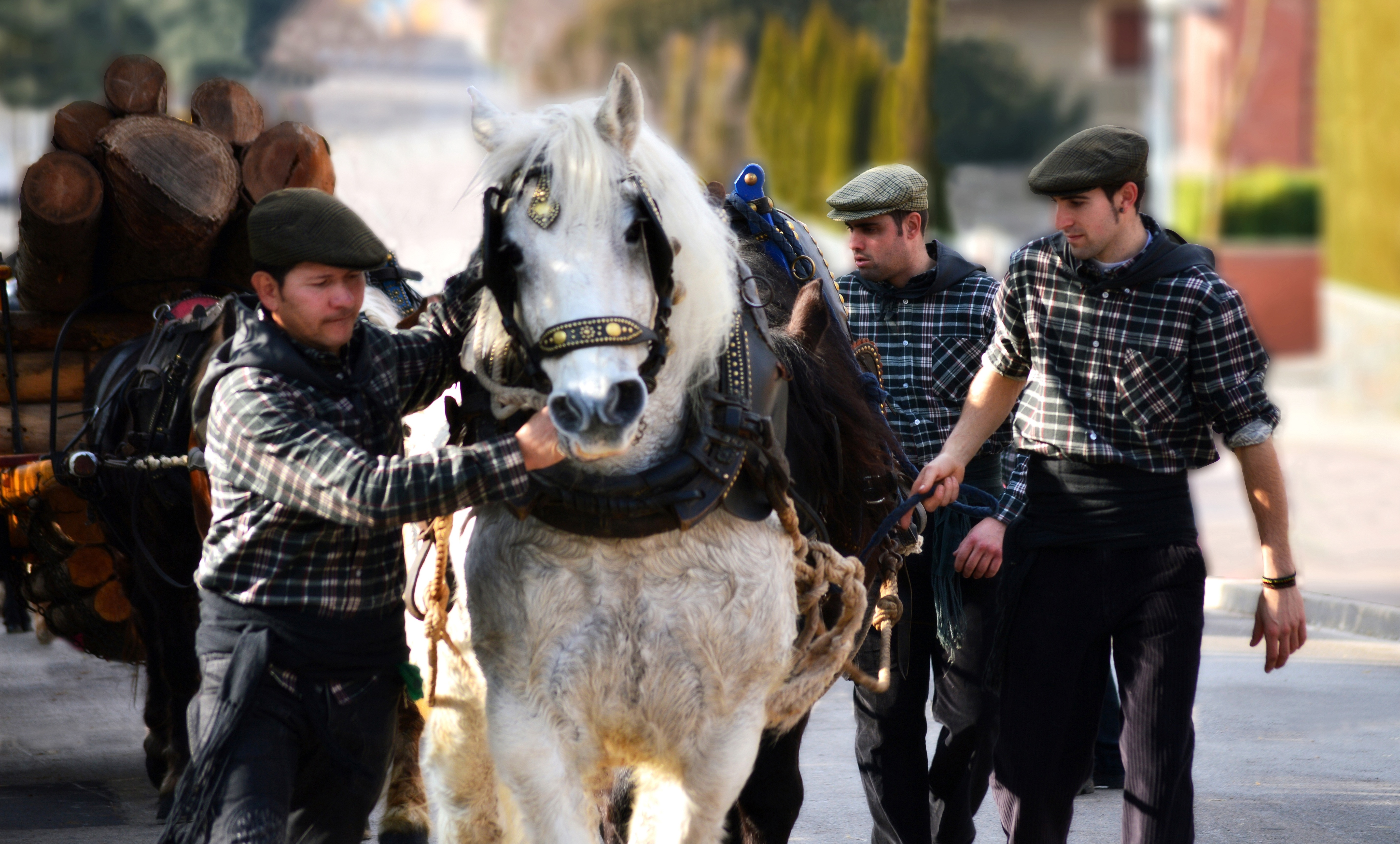 Click here to see more photos, taken by me, available on Instagram